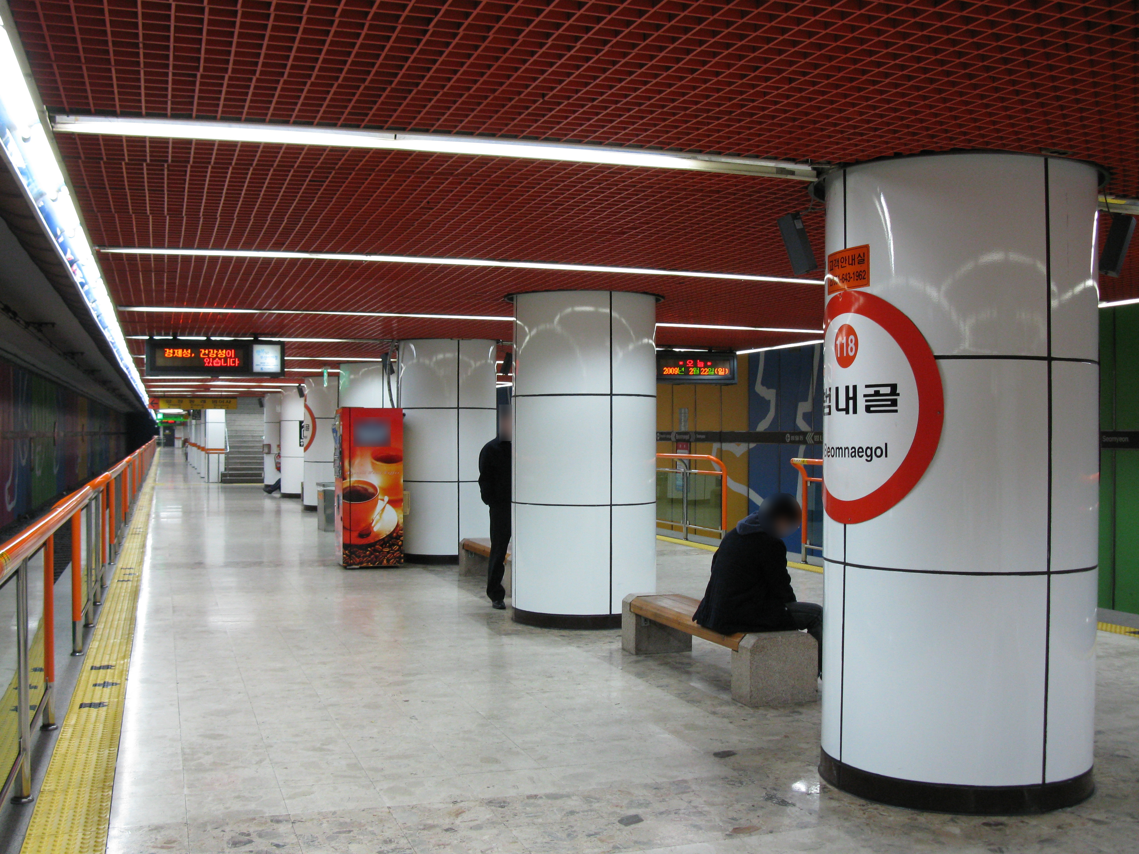 The platform at Beomnaegol Station on the Busan Subway Line 1 in Busanjin-gu, Busan, Republic of Korea(South Korea)